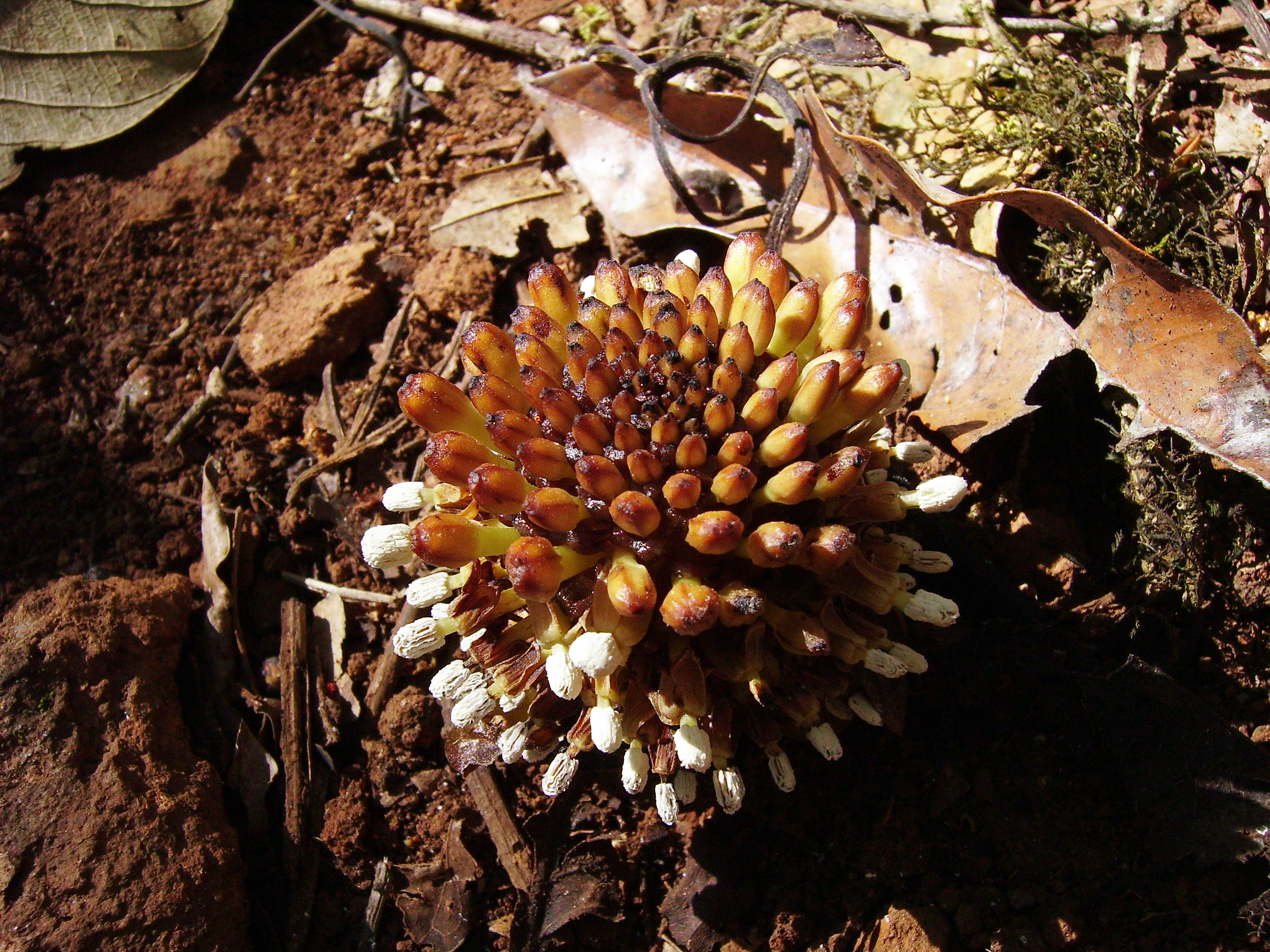 Balanophora fungosa in Madikeri, Coorg, India